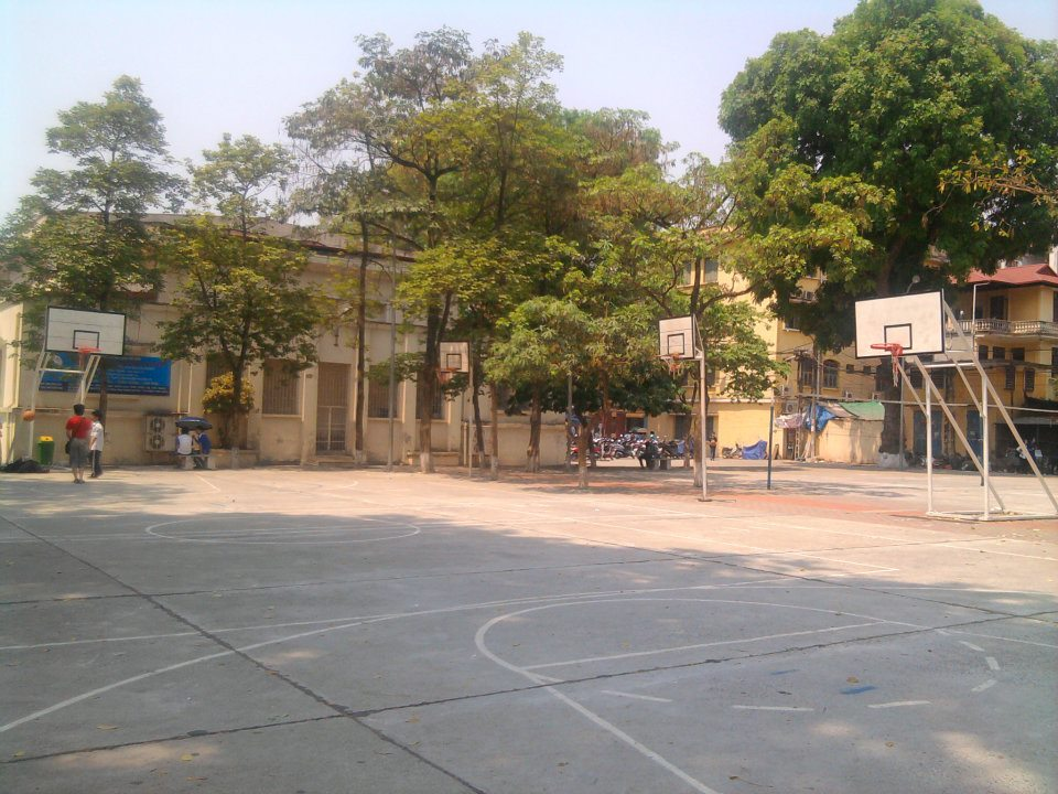 The stadium of Hanoi University of Science,VNU